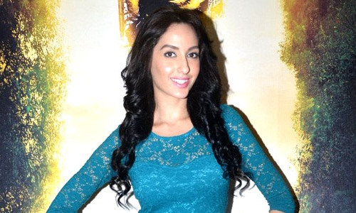 Actress Nora Fatehi at the media meet of 'Roar - Tigers of Sunderbans'